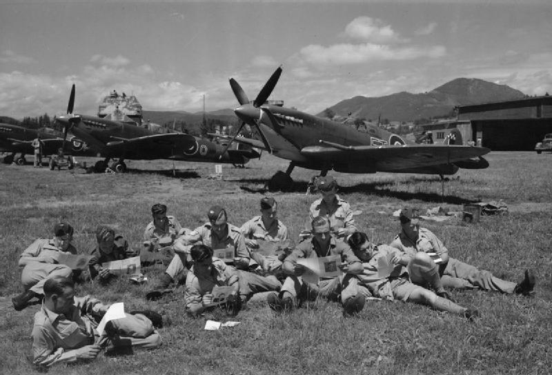 Austria Under Allied Occupation Mechanics of 43 Squadron, Royal Air Force, stationed near Klagenfurt, study literature relating to the General Election.